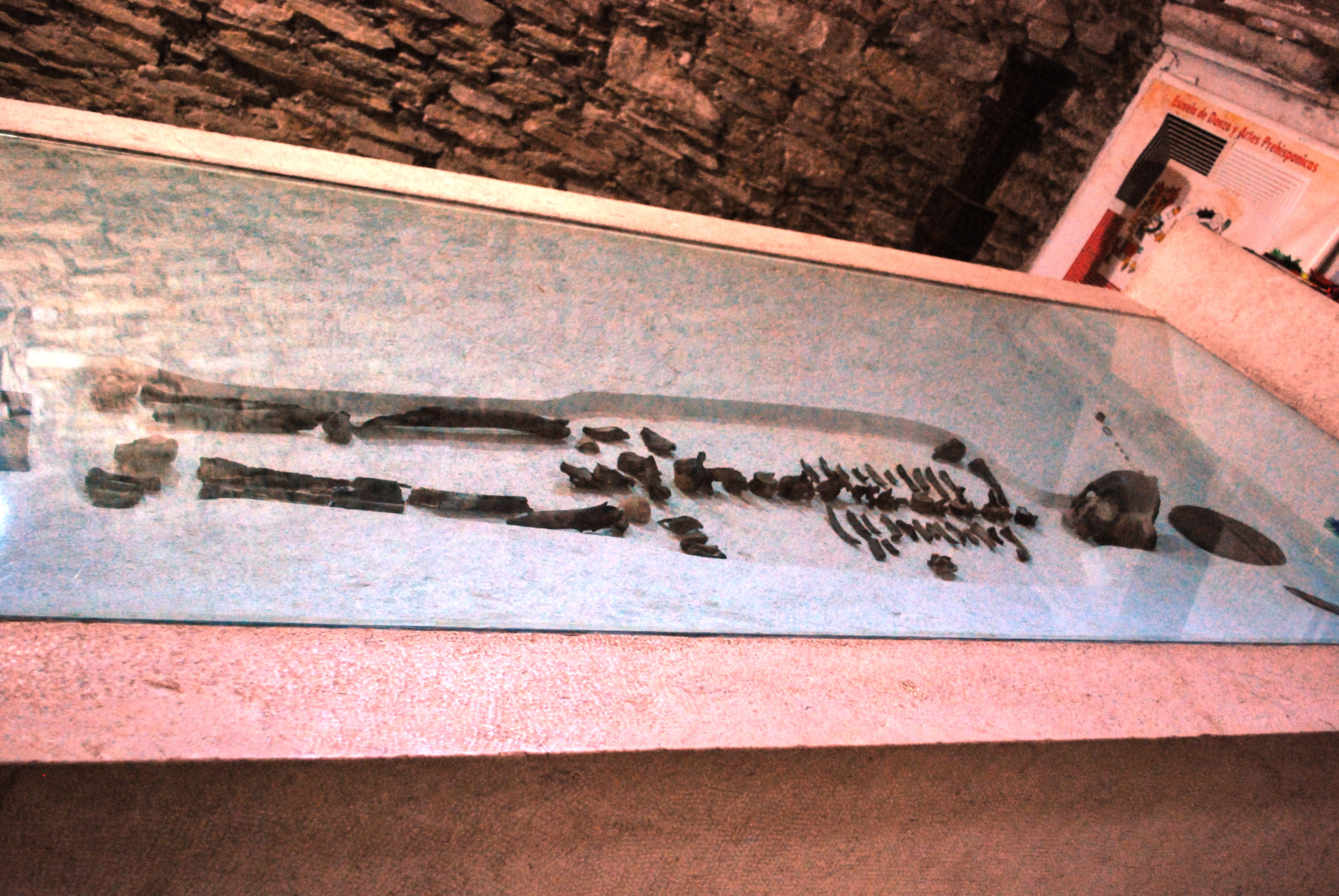 Remains of Aztec emperor Cuauhtemoc at the Museum of Cuauhtemoc in Ixcateopan, Guerrero